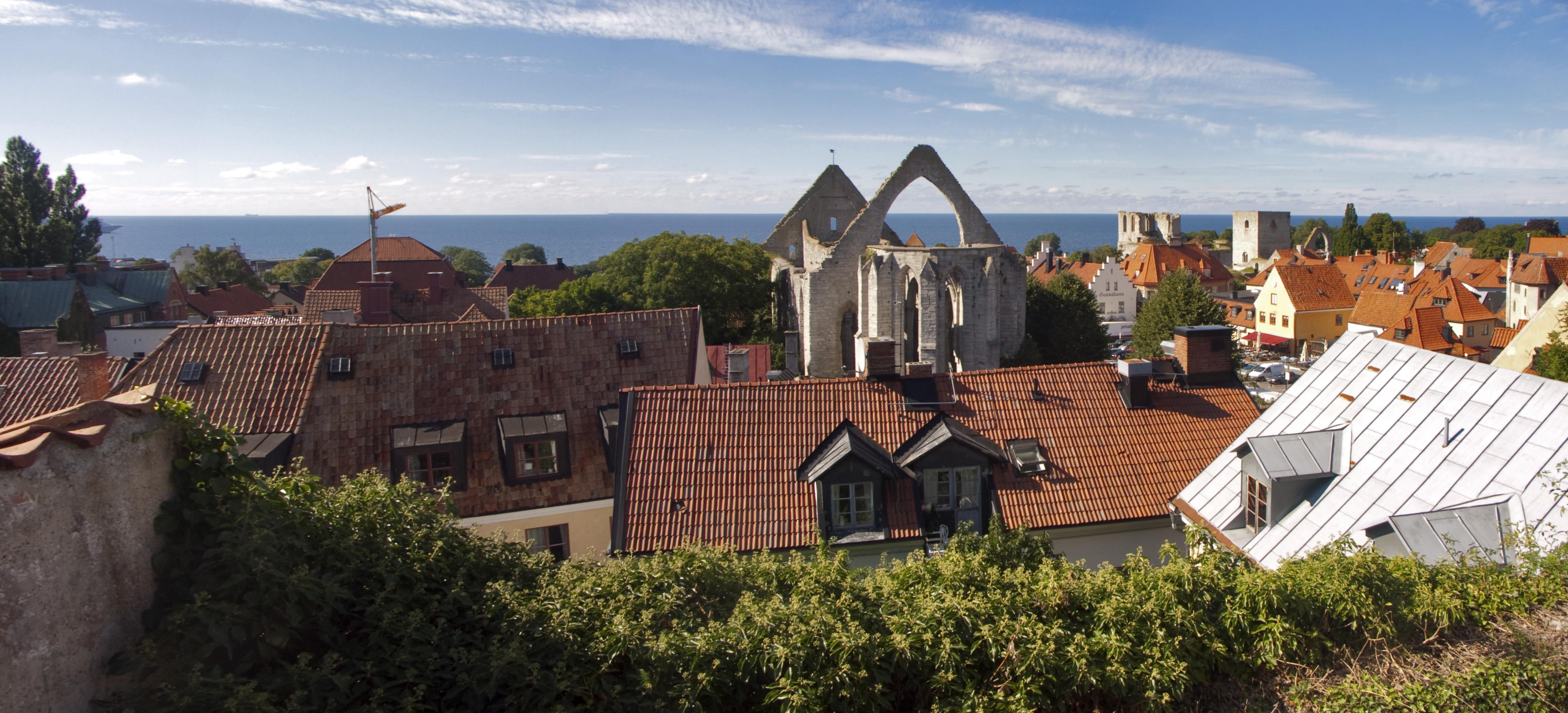 Visby, Gotland, Sweden, panorama over the downtown.